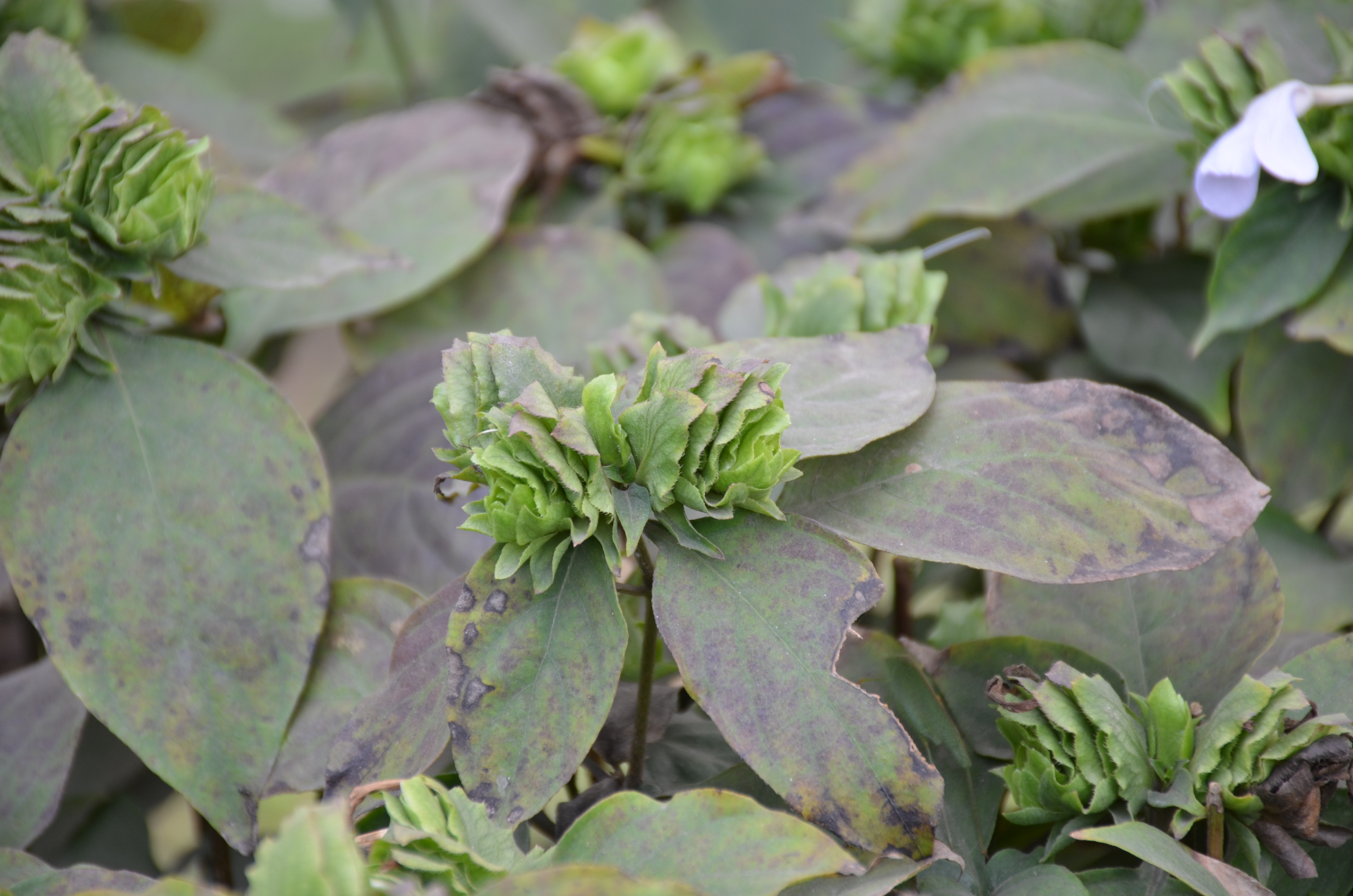 Leaf of নীল ঝাঁটি (Barleria strigosa)